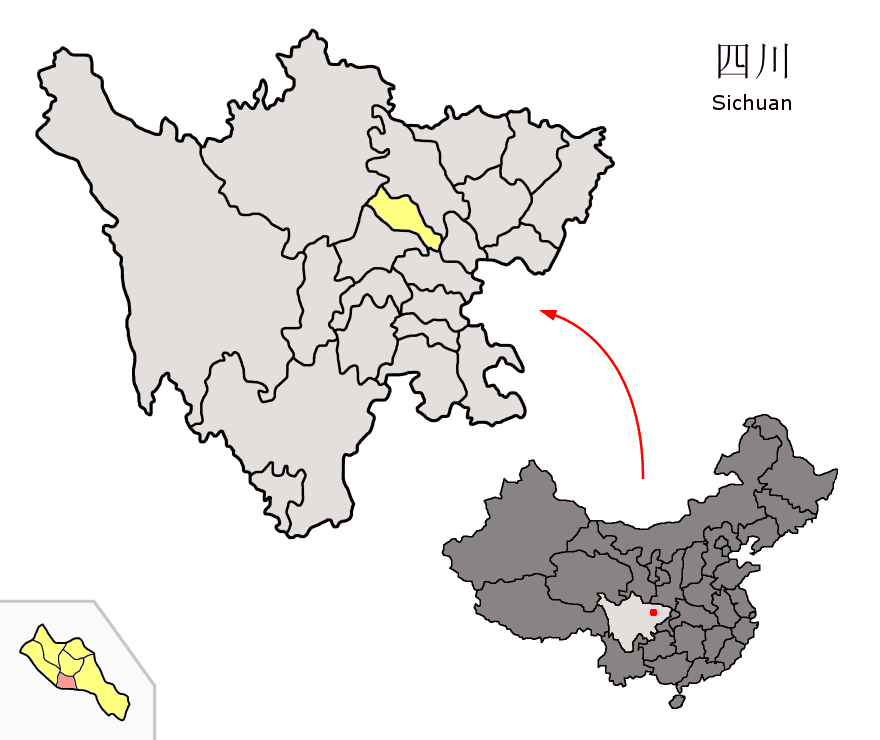 Location of Guanghan City (pink) and Deyang Prefecture (yellow) within Sichuan province of China Map drawn in october 2007 using various sources, mainly : Sichuan province administrative regions GIS data: 1:1M, County level, 1990 Sichuan Counties map from